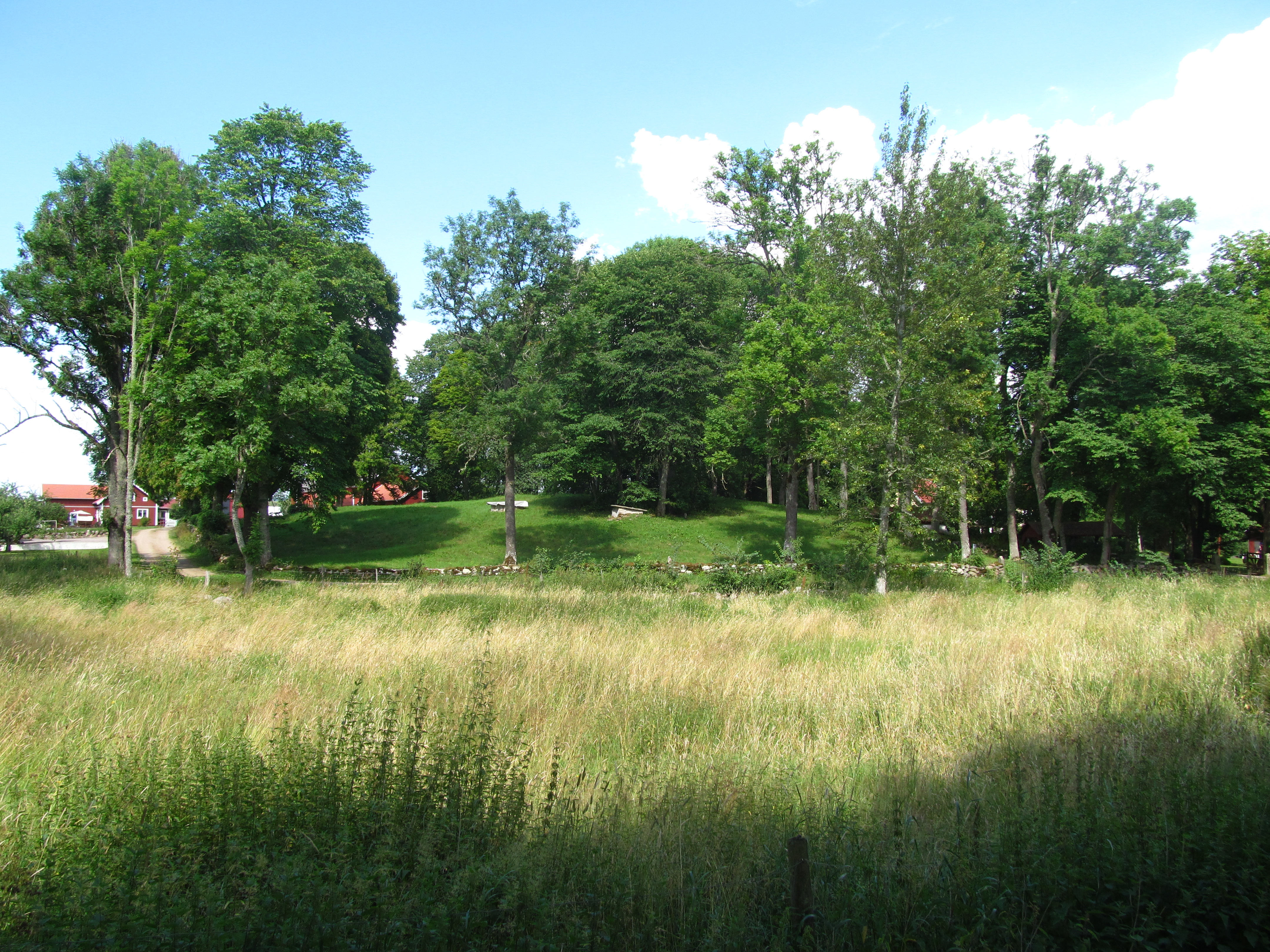 The small hill where the old church of Broddetorp once stood.